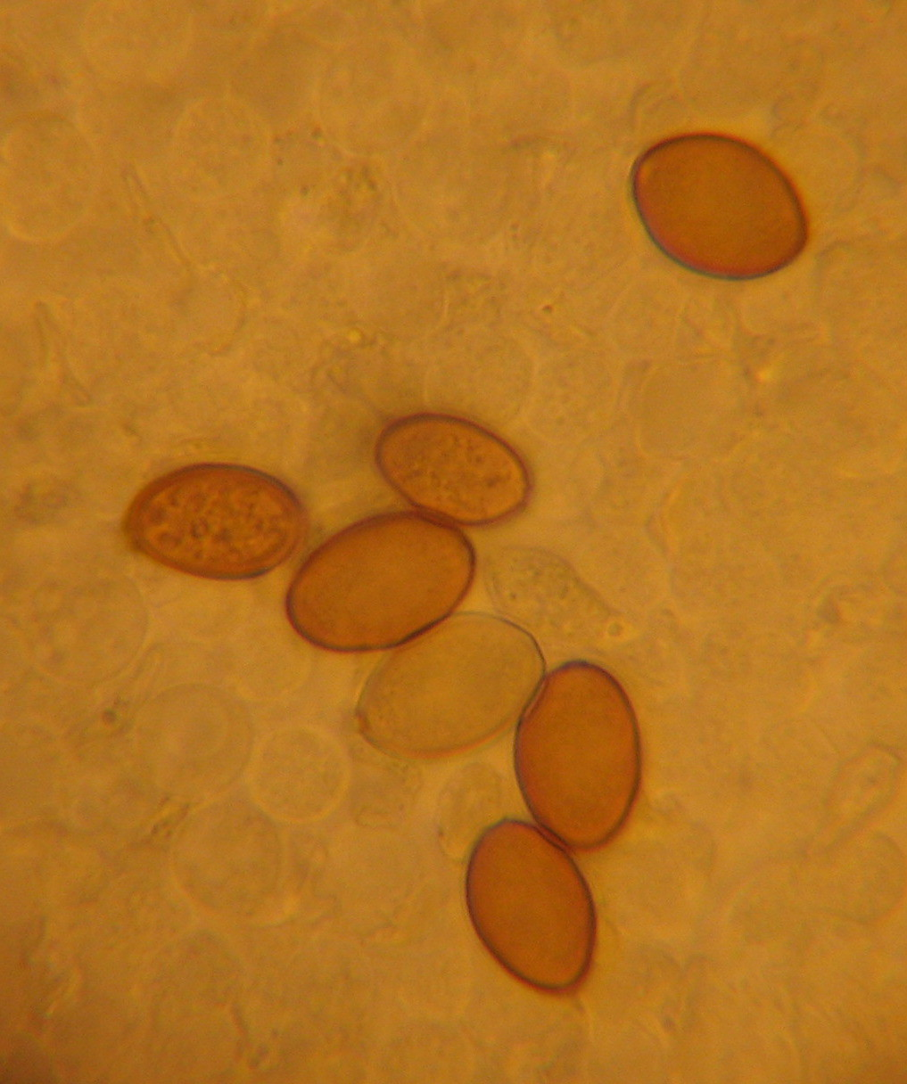 Agrocybe pediades spores, from a gill edge. 1000x magnification Collected on 08/16/07 on a lawn in the Bay Area, California.